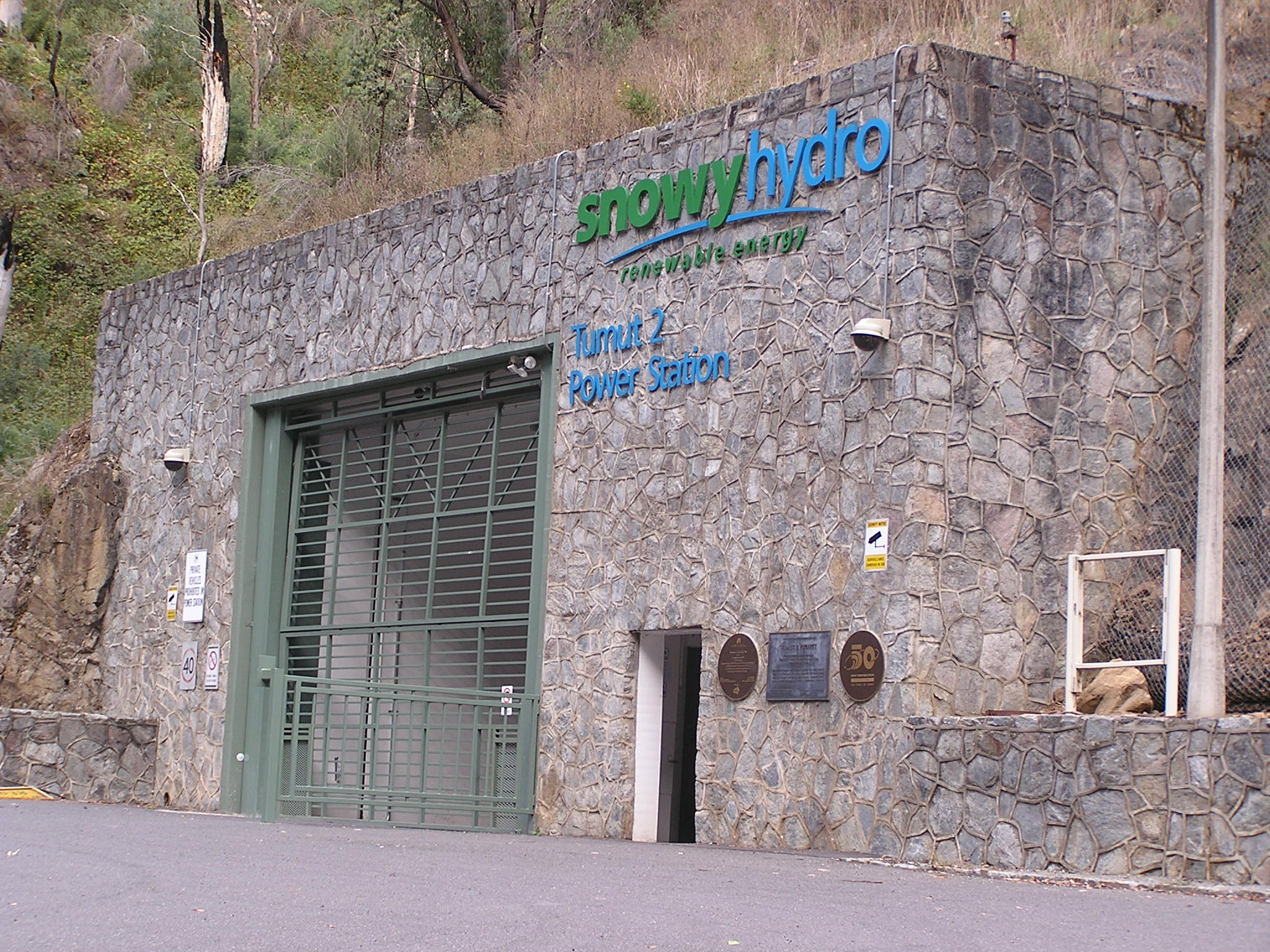 Snowy Mountains Scheme: Tumut 2 underground power station (April 2005)